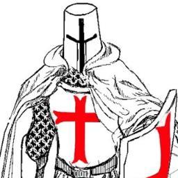 The image was made by pen tab, with the character of a white knight (Templar) as model, exclusively created and used as logo for MalwareMustDie, NPO .